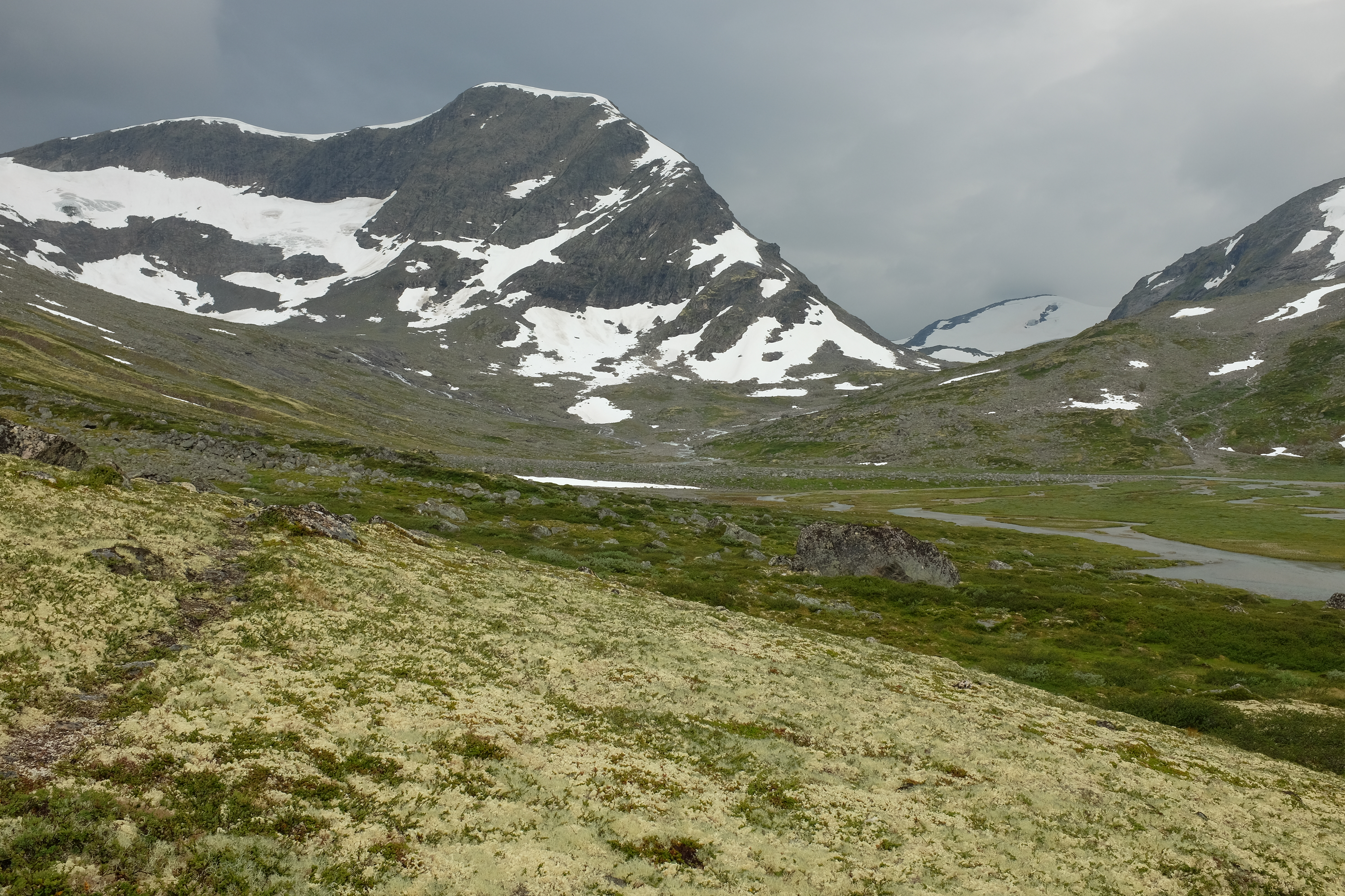 Vesldalstinden is a mountain in Skjåk municipality in Oppland.